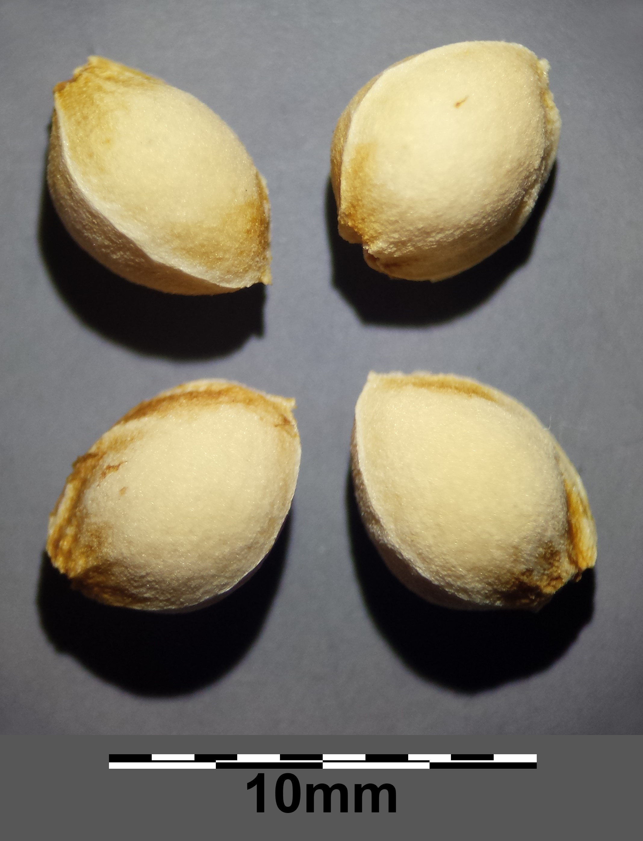 Stones Taxonym: Prunus fruticosa ss Fischer et al. EfÖLS 2008 ISBN 978-3-85474-187-9 Location: Burgstall to the North of Großmugl, district Korneuburg, Lower Austria - 330 m a.s.l. Habitat: slope